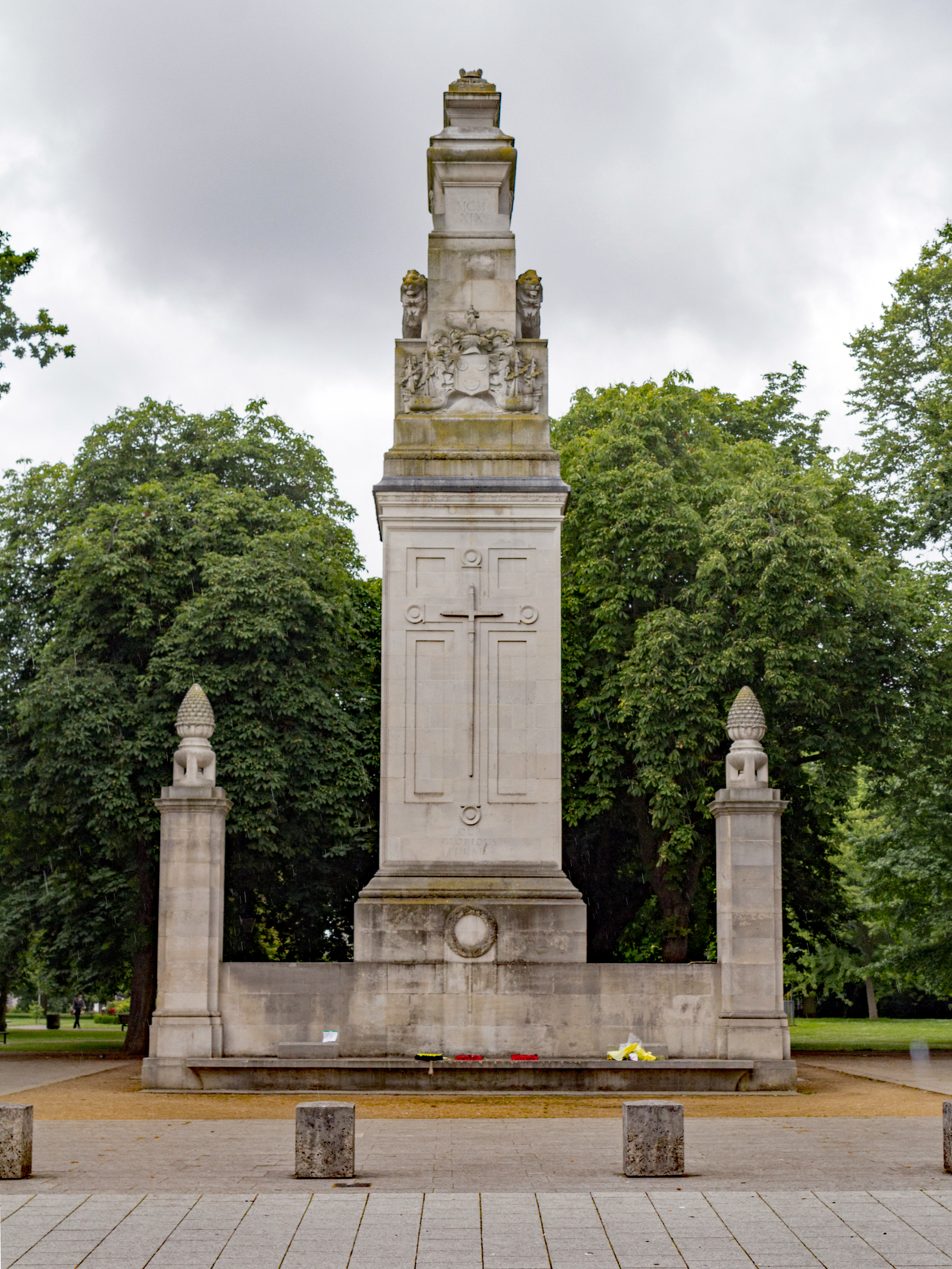 Southampton Cenotaph Wikidata has entry Q17555195 with data related to this building.